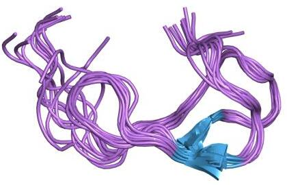 Cartoon representation of the molecular structure of protein registered with 1kio code.